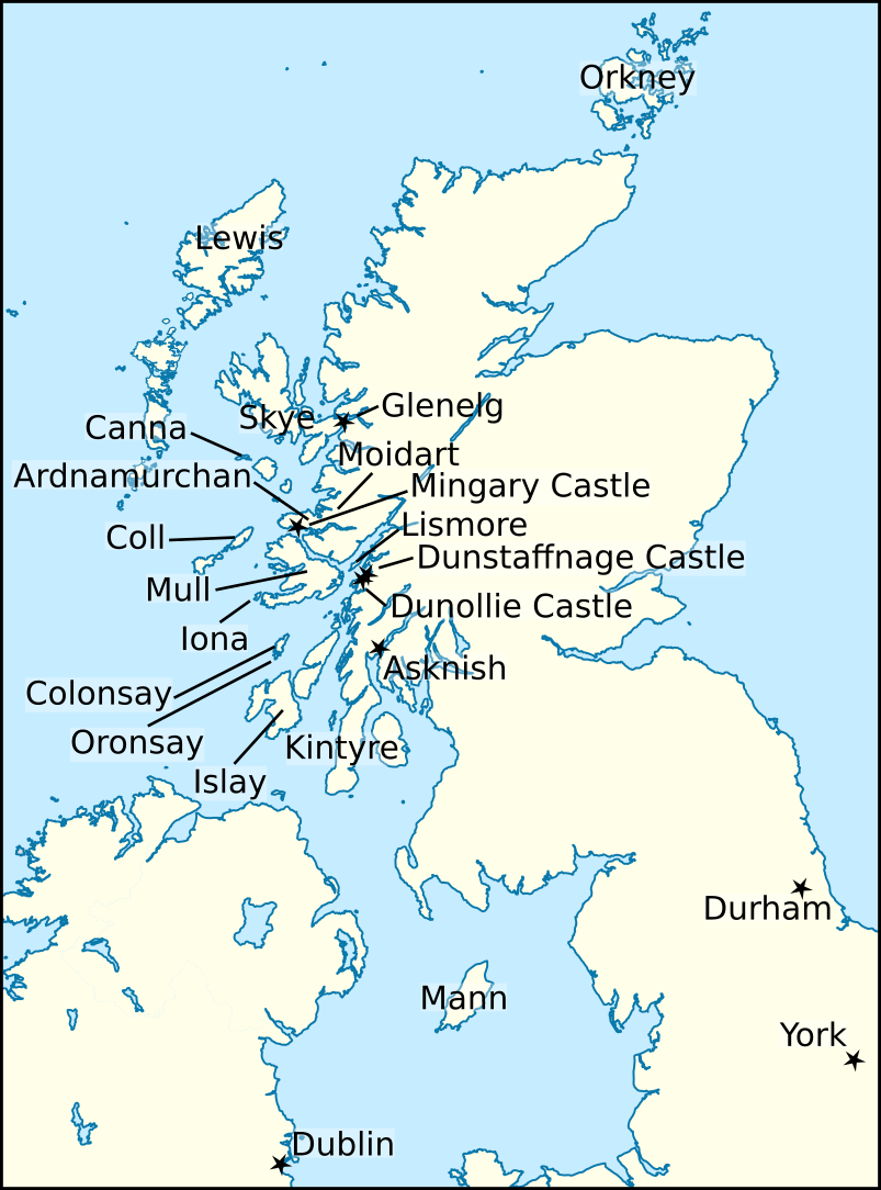 Map for the Wikipedia article concerning Dubgall mac Somairle (died 1175×).